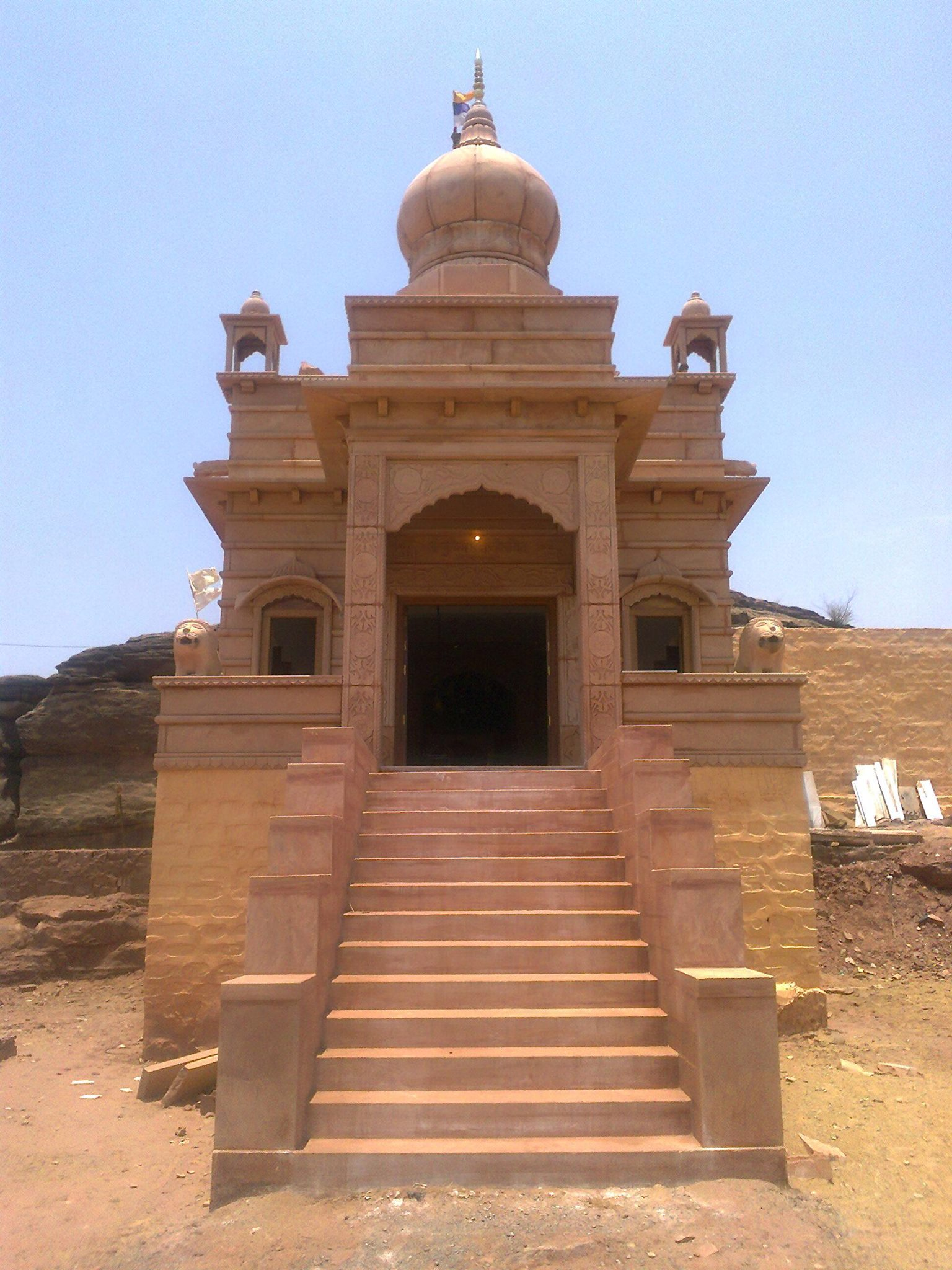 the holy temple on the boundary of sopra and kuri